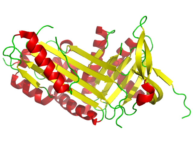 Structure of corticosteroid-binding globulin in complex with cortisol.